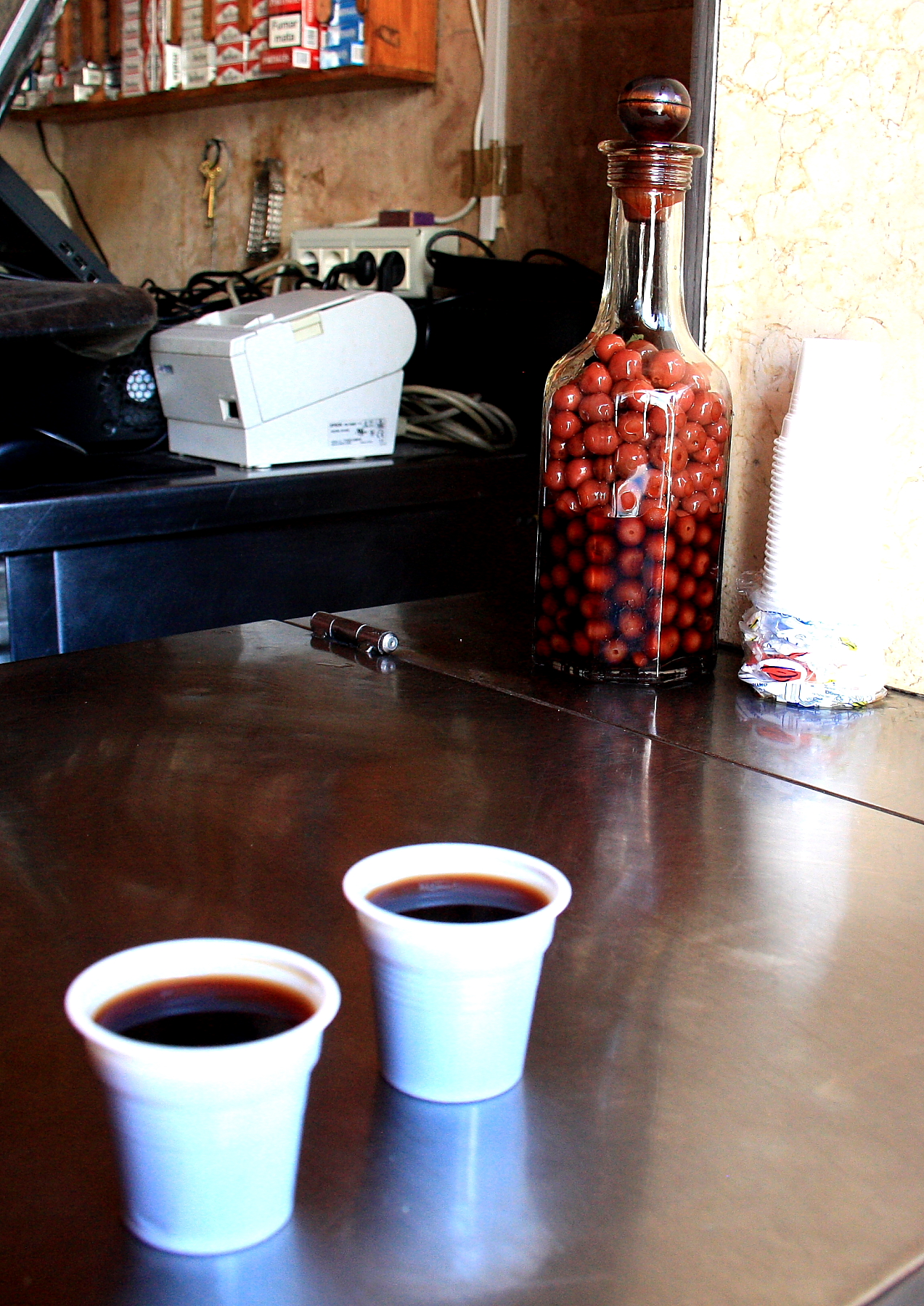 Drink two! Ginjinha is a tart cherry flavored brandy served in a plastic shot glass for 1 euro Read more at Suite101: Best Places for Local Cuisine and Culture in Lisbon Portugal